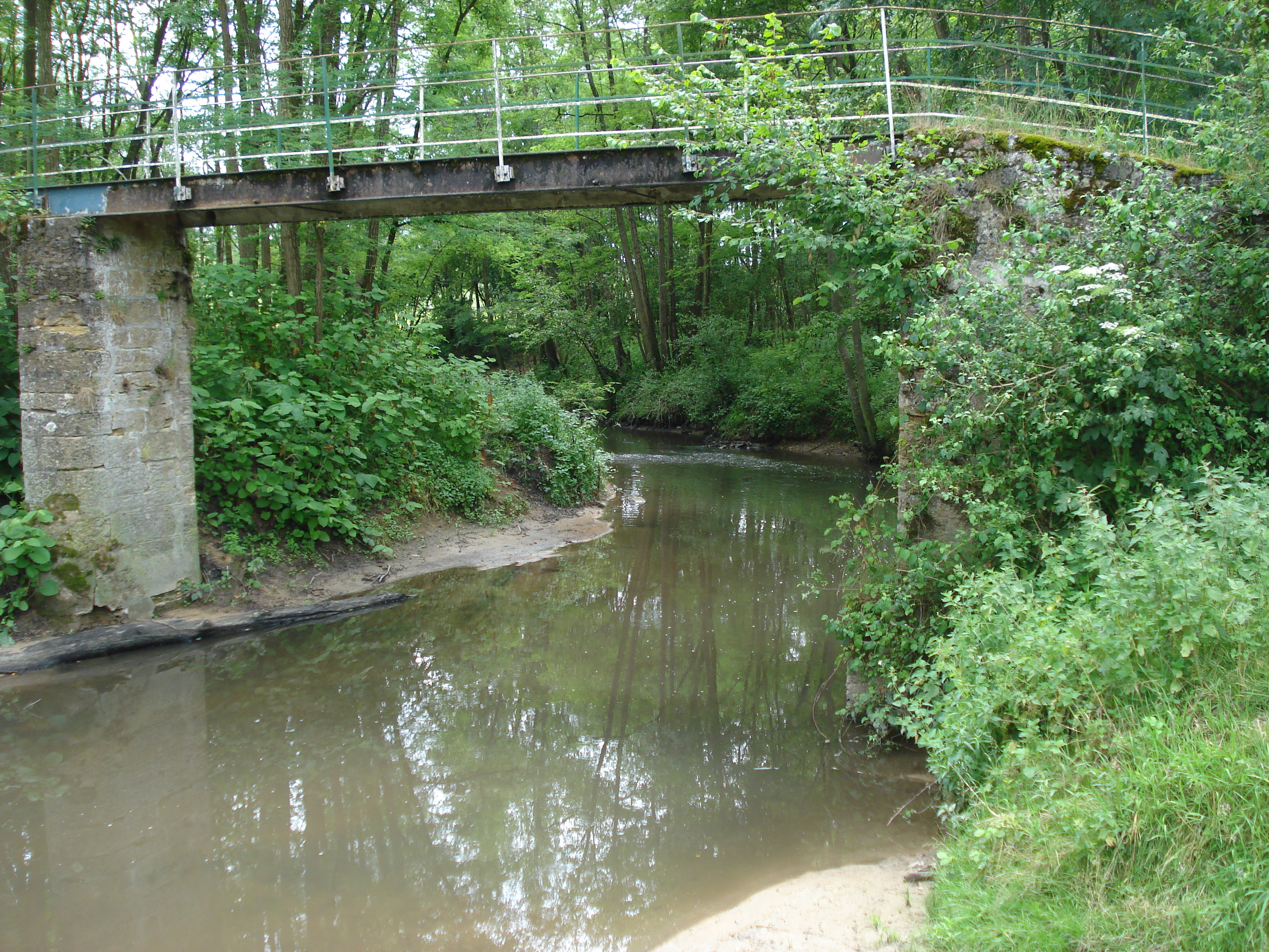 La Teyssonne à Teyssonne (Briennon, Loire, France), passerelle.